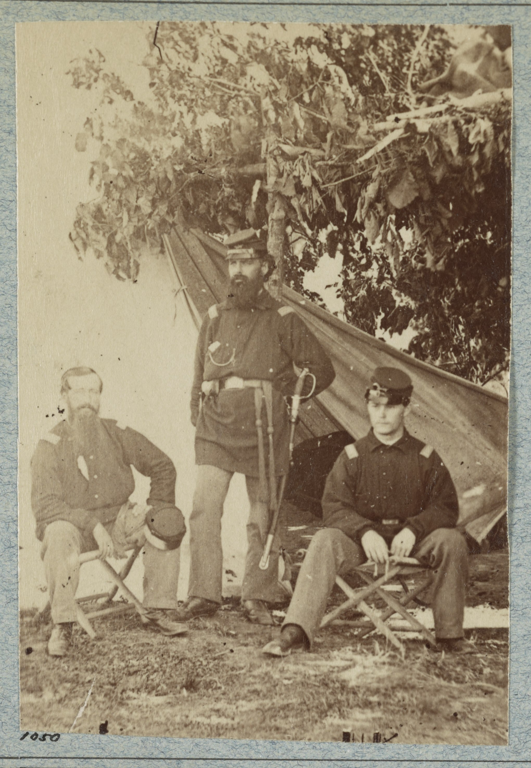 Title: 2d Rhode Island Infantry Physical description: 1 photographic print on card mount : half stereograph, albumen. Notes: No. 1050.; Mounted with 5 other photographs.; Gift; Col. Godwin Ordway; 1948.; Title from item.